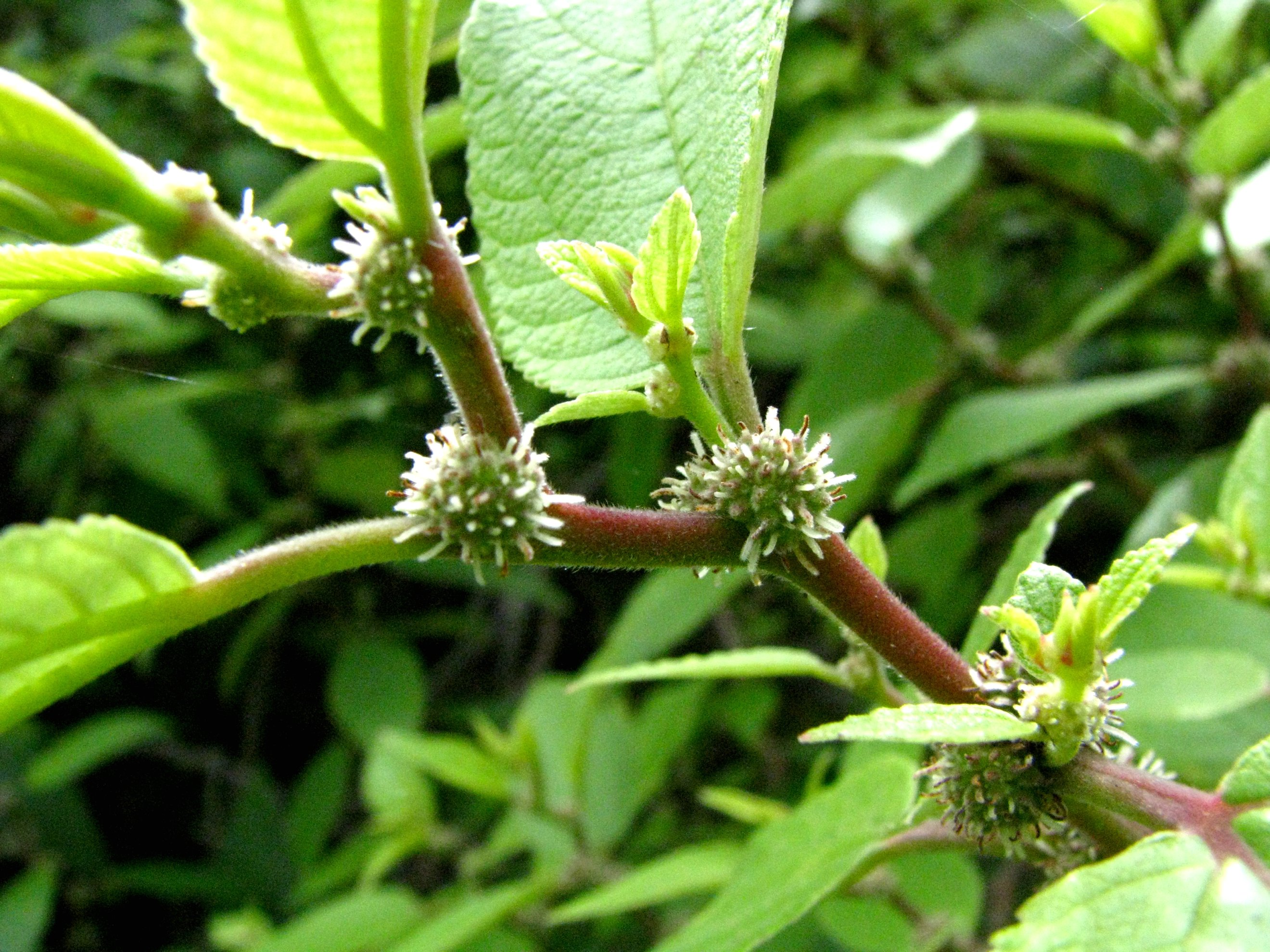 Māmaki, Māmake Urticaceae Endemic to the Hawaiian Islands Hawaiʻi Volcanoes National Park, Hawaiʻi Island Green fruits. Dried or fresh leaves are used to make a mild but invigorating and healthy tea and one few commercially available native herbs for consumption. Ripe whitish fruits are bland but edible. Māmaki has been used since the early Hawaiians.